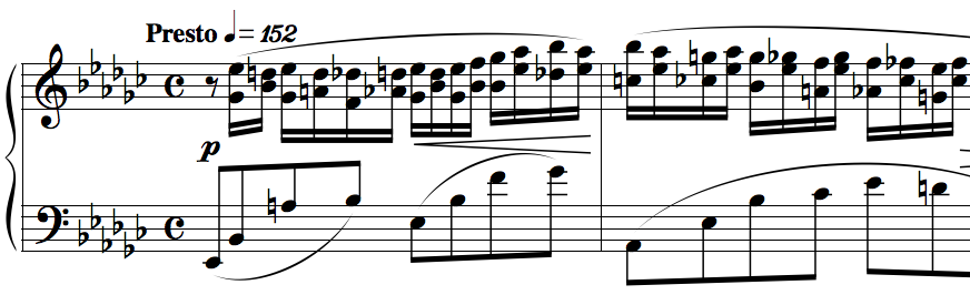 The first few measures of Preludes, Op. 23, No. 9. The set, composed by Sergei Rachmaninoff in 1901 was published before 1923, and thus is in the public domain.